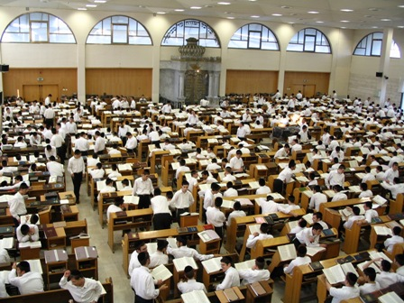 Hebron yeshiva in Givat Mordechai (Jerusalem)